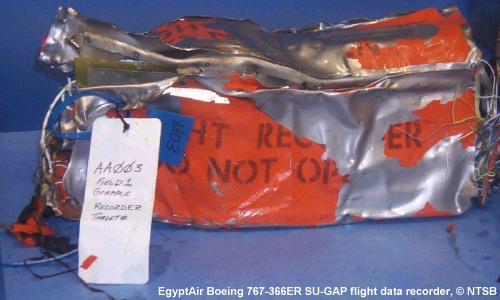 The Flight Data Recorder of EgyptAir flight 990, which crashed into the Atlantic Ocean 60 miles South of Nantucket, Massachusetts, on October 31, 1999. All 217 people on board were killed.